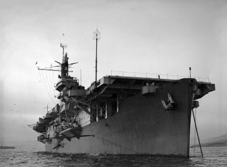 The Royal Navy Ameer-class escort aircraft carrier HMS Emperor (D98) at anchor at Greenock, Scotland (UK).